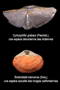 Cyrtospirifer geabaui (Paeckel) a species Devonian of the Ardennes and Terebratalia tranverse (Sow) species present in California